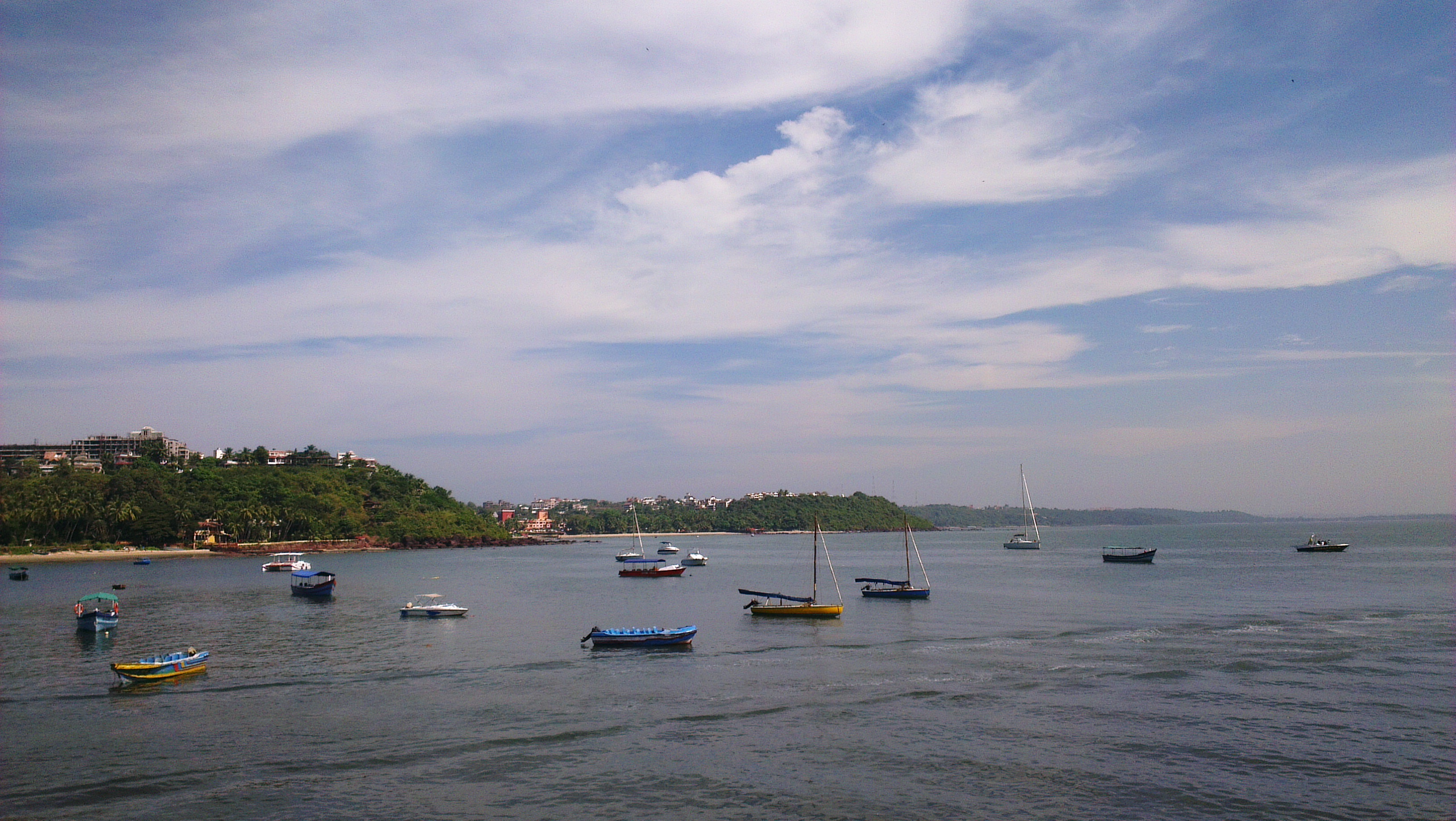 Fishing Boats anchored at Dona Paula , Goa